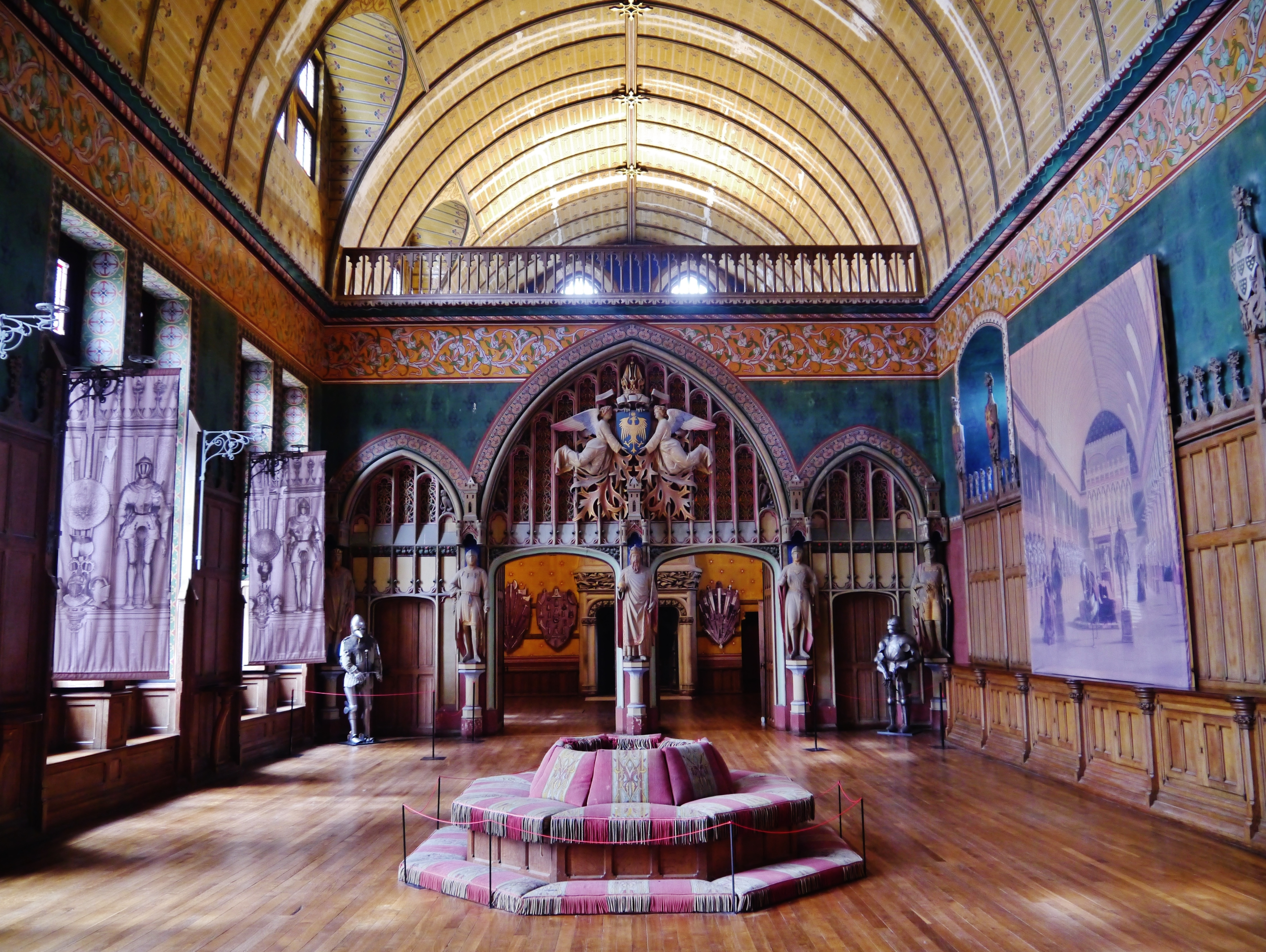 Preuse Hall of Pierrefonds Castle, Pierrefonds, Department of Aisne, Region of Upper France (former Picardy), France